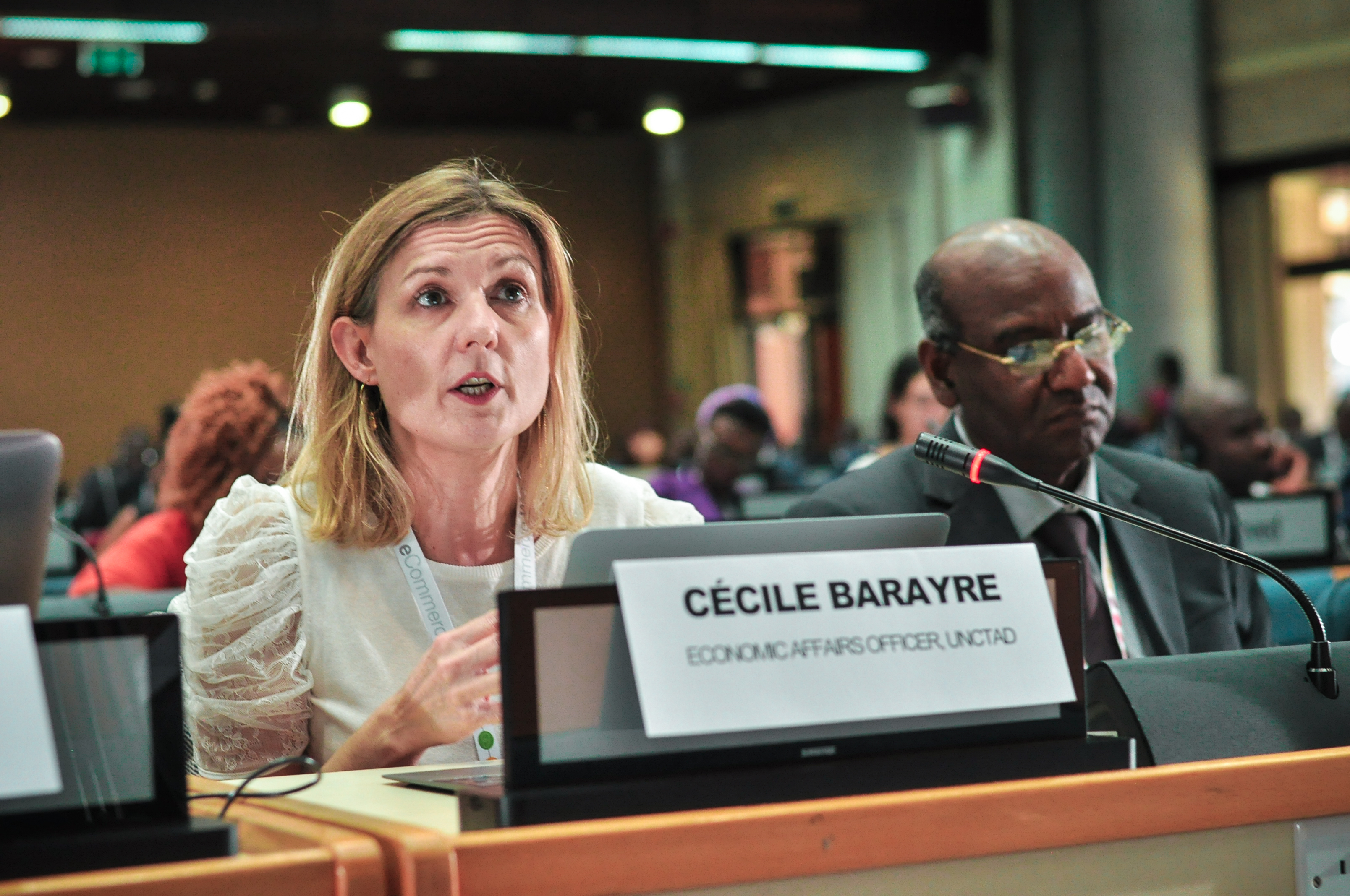 Africa eCommerce Week was organized from 10 to 14 December by UNCTAD, the African Union, the European Union and eTrade for All partners. Held at the United Nations Office at Nairobi and hosted by the Kenyan government, the conference examined ways to enhance the ability of African countries to engage in and benefit from e-commerce and the evolving digital economy. Photo by Gleestitch Studios Website